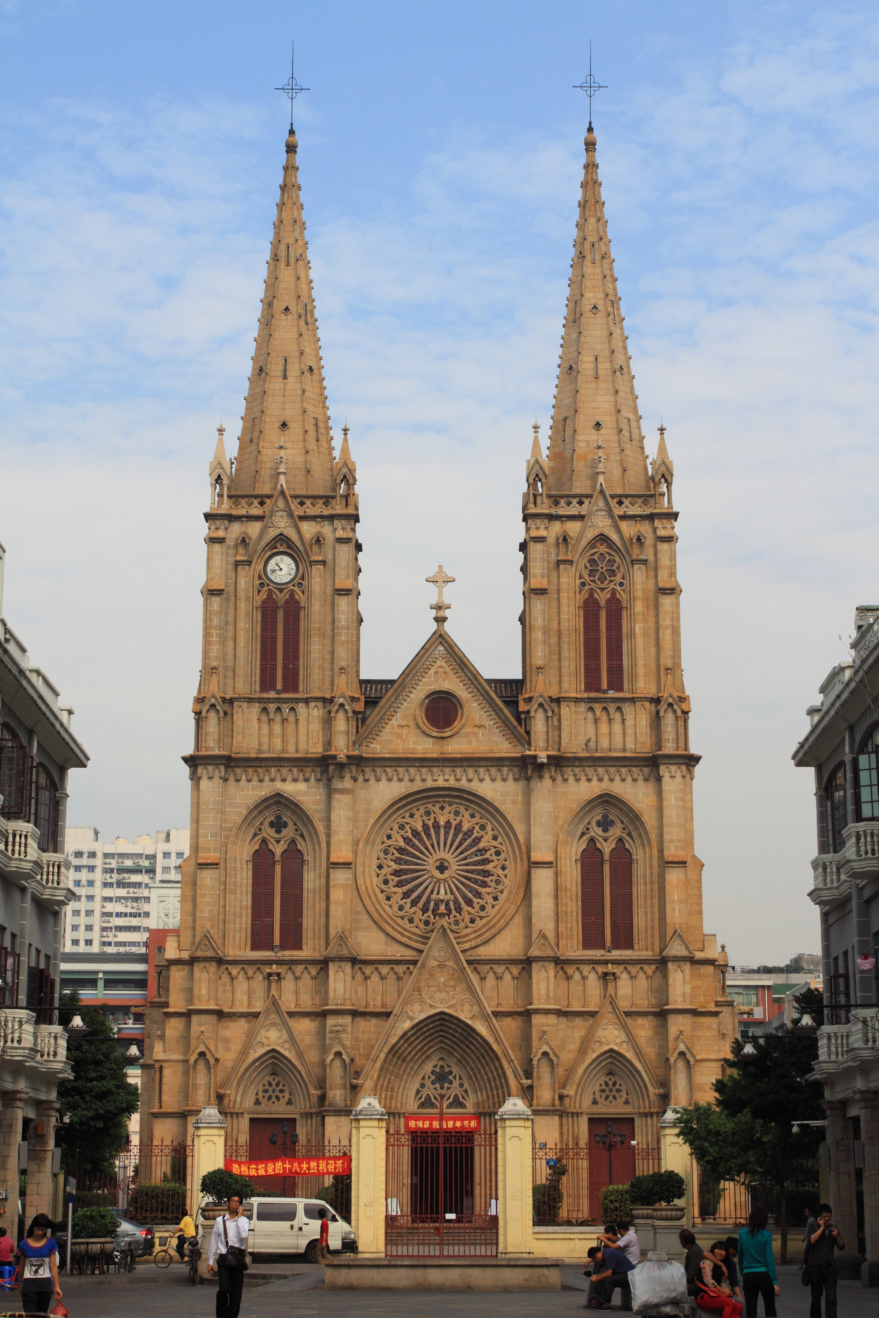 Sacred Heart Cathedral of Guangzhou，in Guangzhou, Guangdong, China.